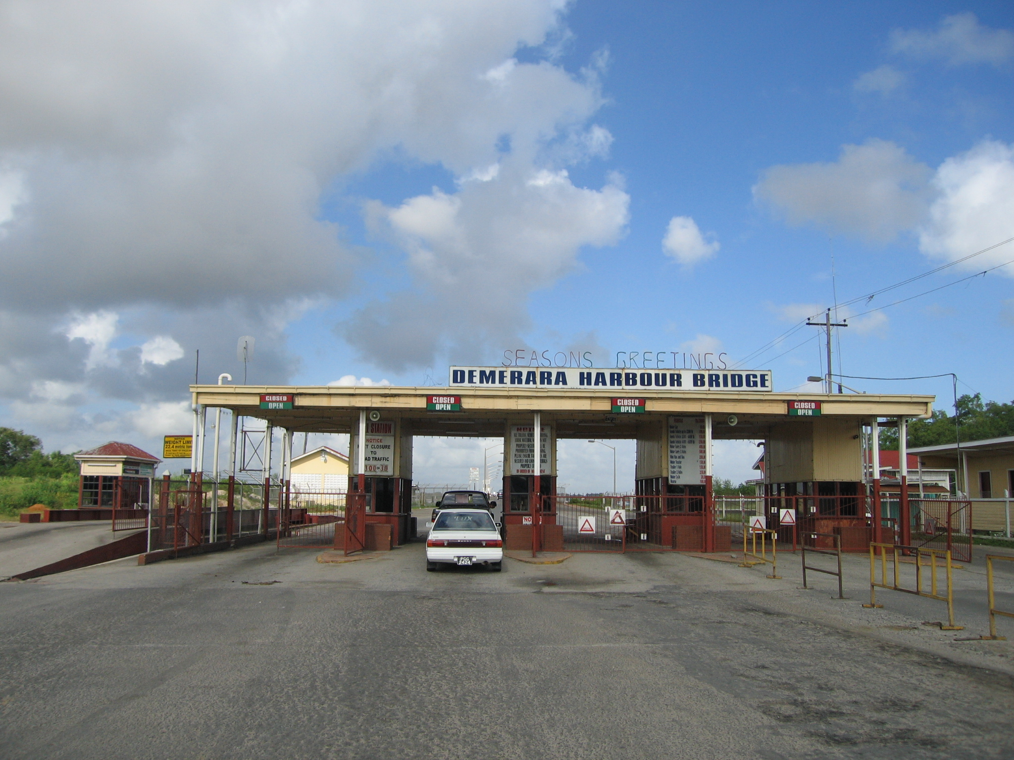 Picture of toll both side of Demerara Harbor Bridge. Toll is only collected in one direction. Taken 12/2006